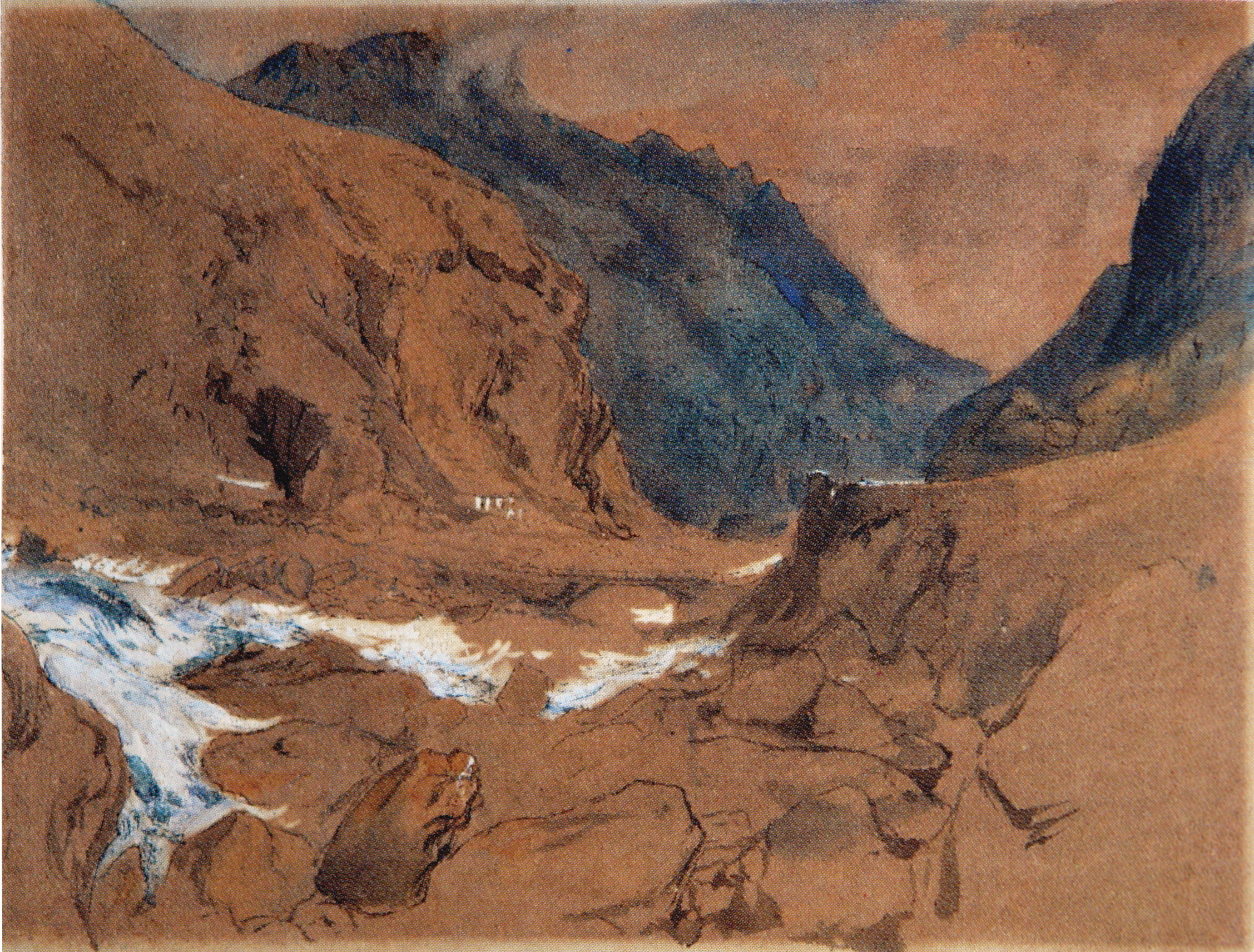 The Pass of Faido on the St Gotthard. Brown ink and watercolour, with bodycolour on brown paper, 24.8 x 34.5 cm